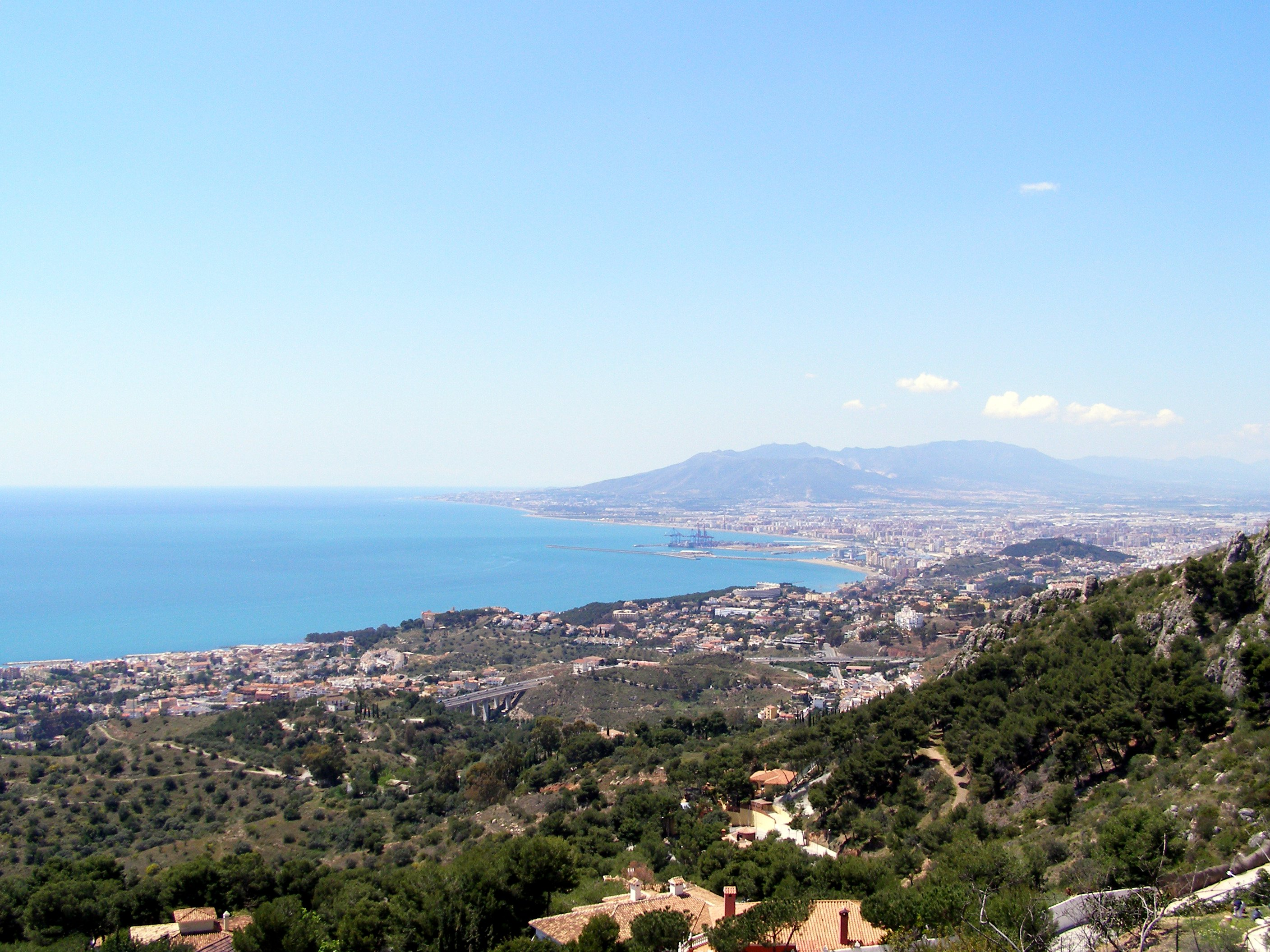 Bay of Málaga, Andalusia, Spain